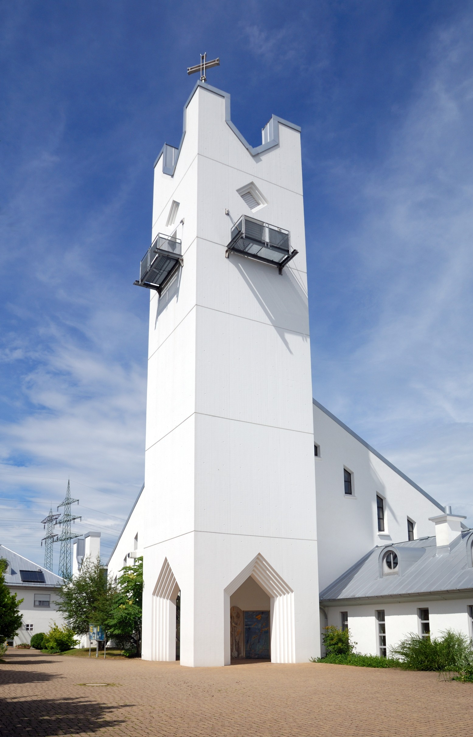 Rheinfelden: Saint Michaels Church (bell tower)